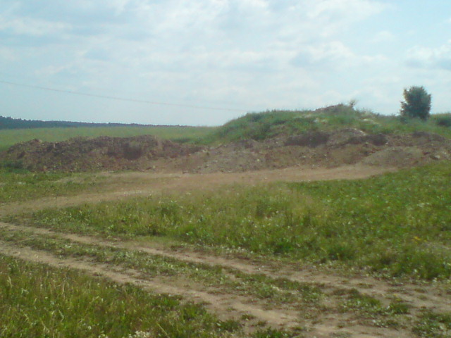 Dumping ground on the edge of the building, which dares fertile soil